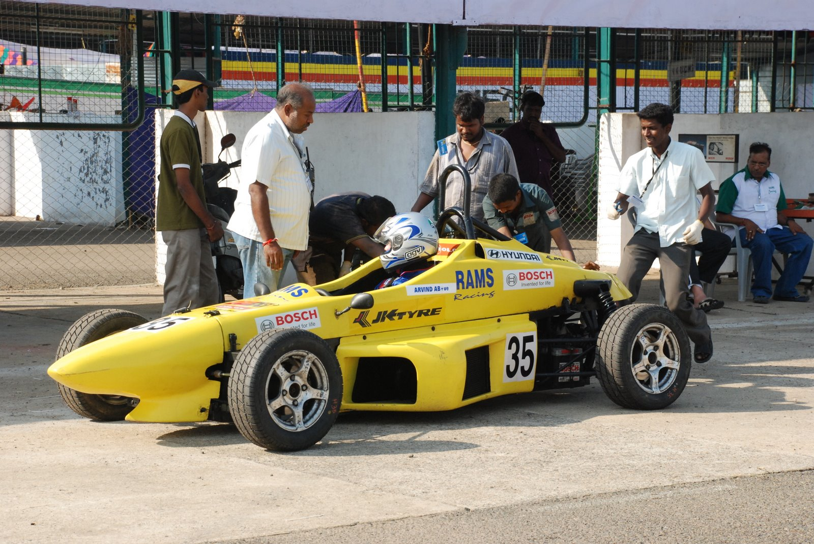 A Rams Racing Formula LGB HYundai at MMSC racetrack.